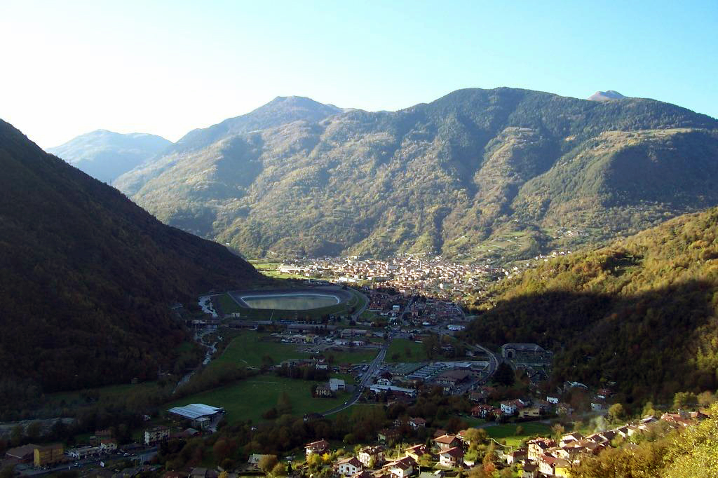 Edolo from Sonico, Val Camonica